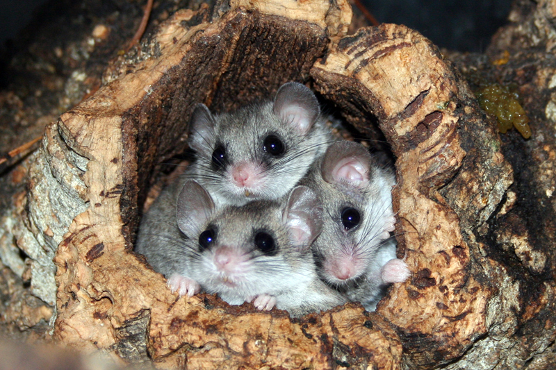 Graphiurus spec, probably G.murinus, three males